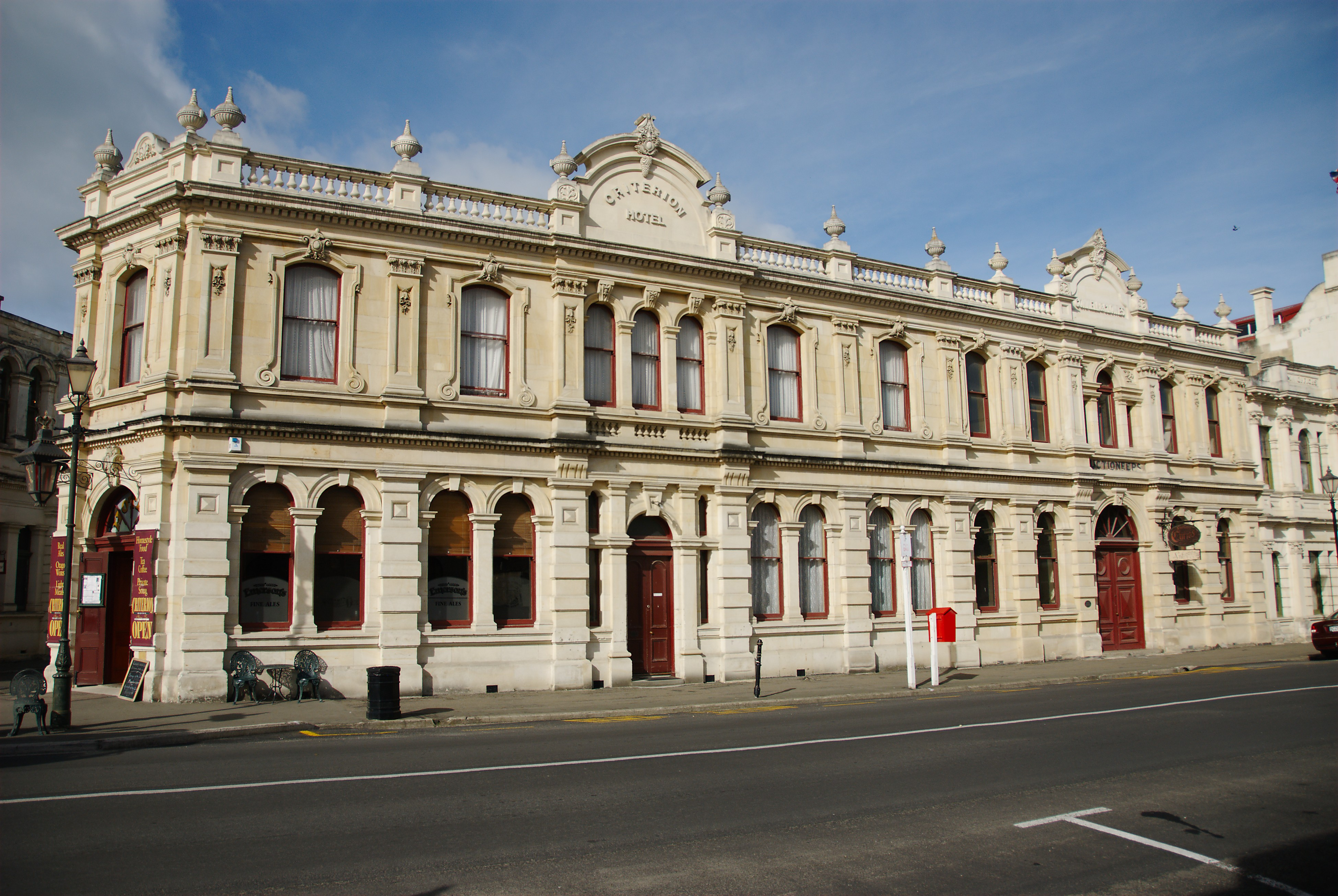 The Criterion Hotel in Tyne Street, Oamaru. It is a Category I historic place on the register of the New Zealand Historic Places Trust.